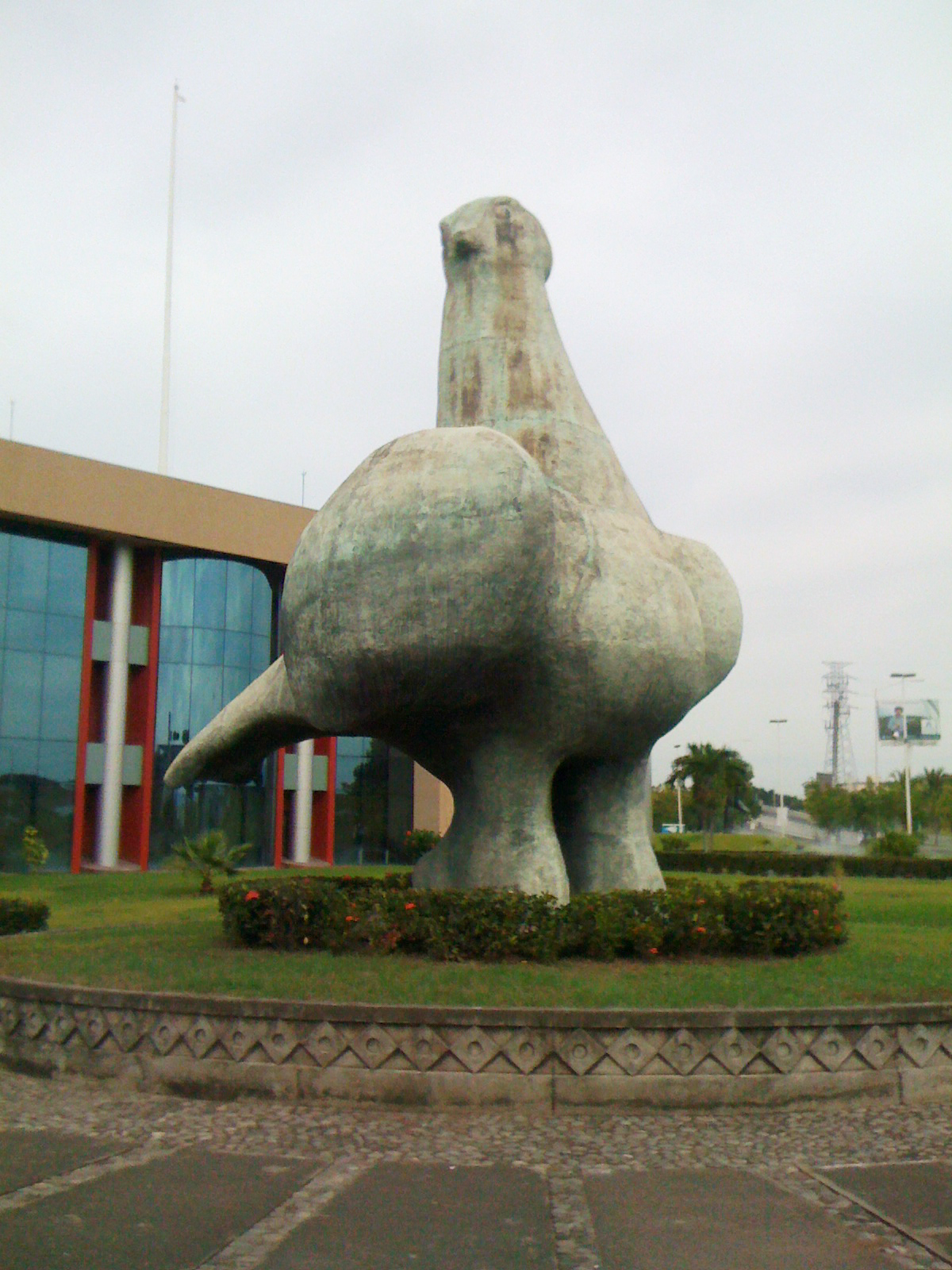 Mexican artist Juan Soriano's Sculpture titled The Dove, located on Colima, Mexico.